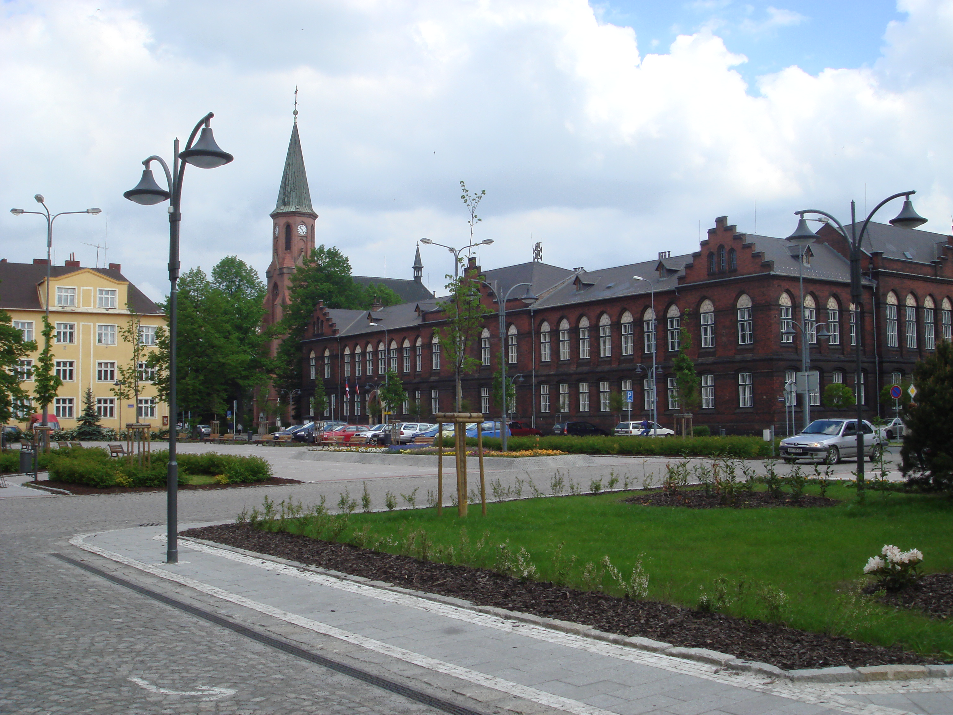 T. G. Masaryk Square in Bohumín (Moravian-Silesian Region, Czech Republic).